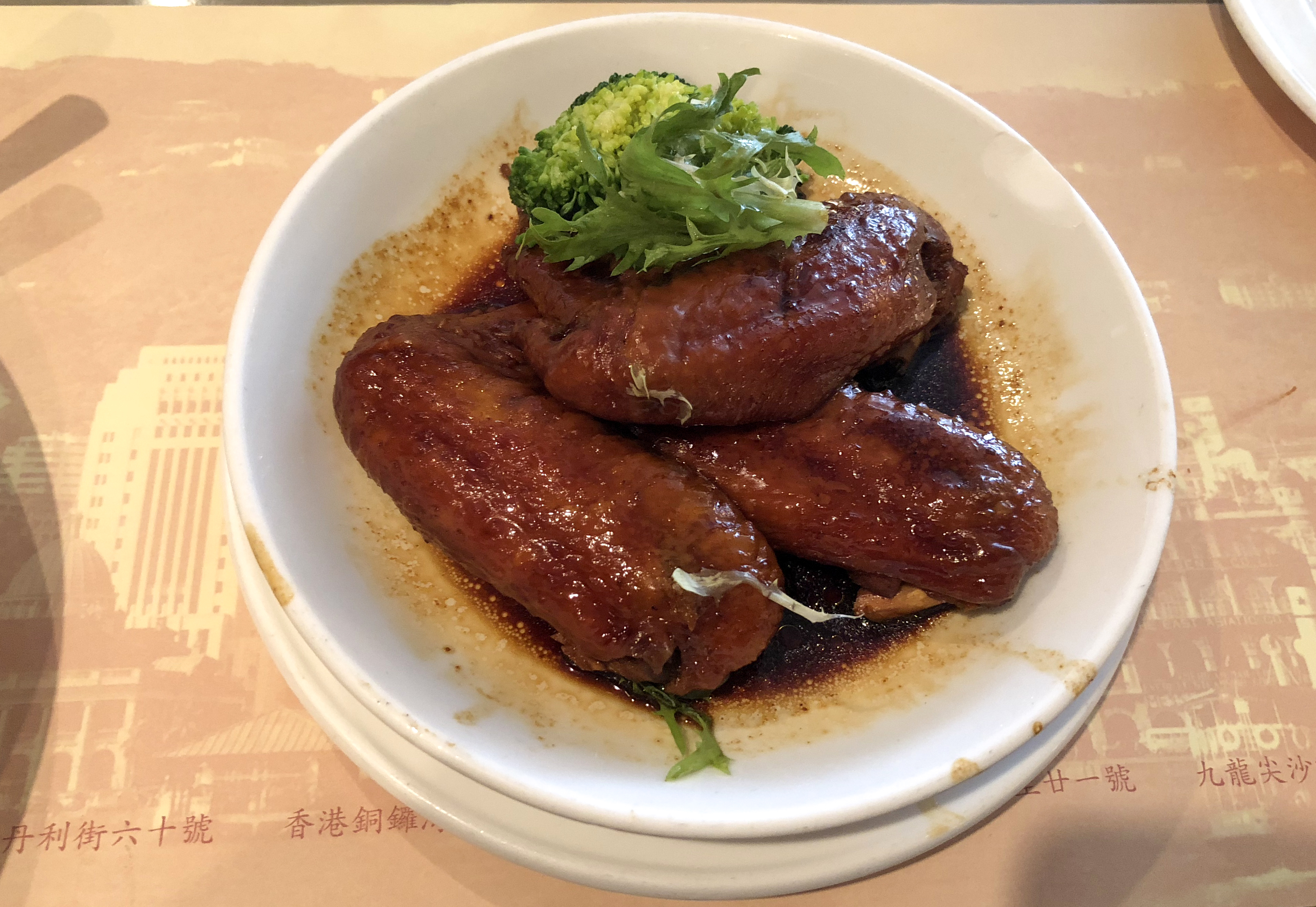 "Swiss wings" is not Alpine at all - it all comes from a waiter's misinterpretation of "sweet", for the chicken wings are cooked in sweet soy sauce.